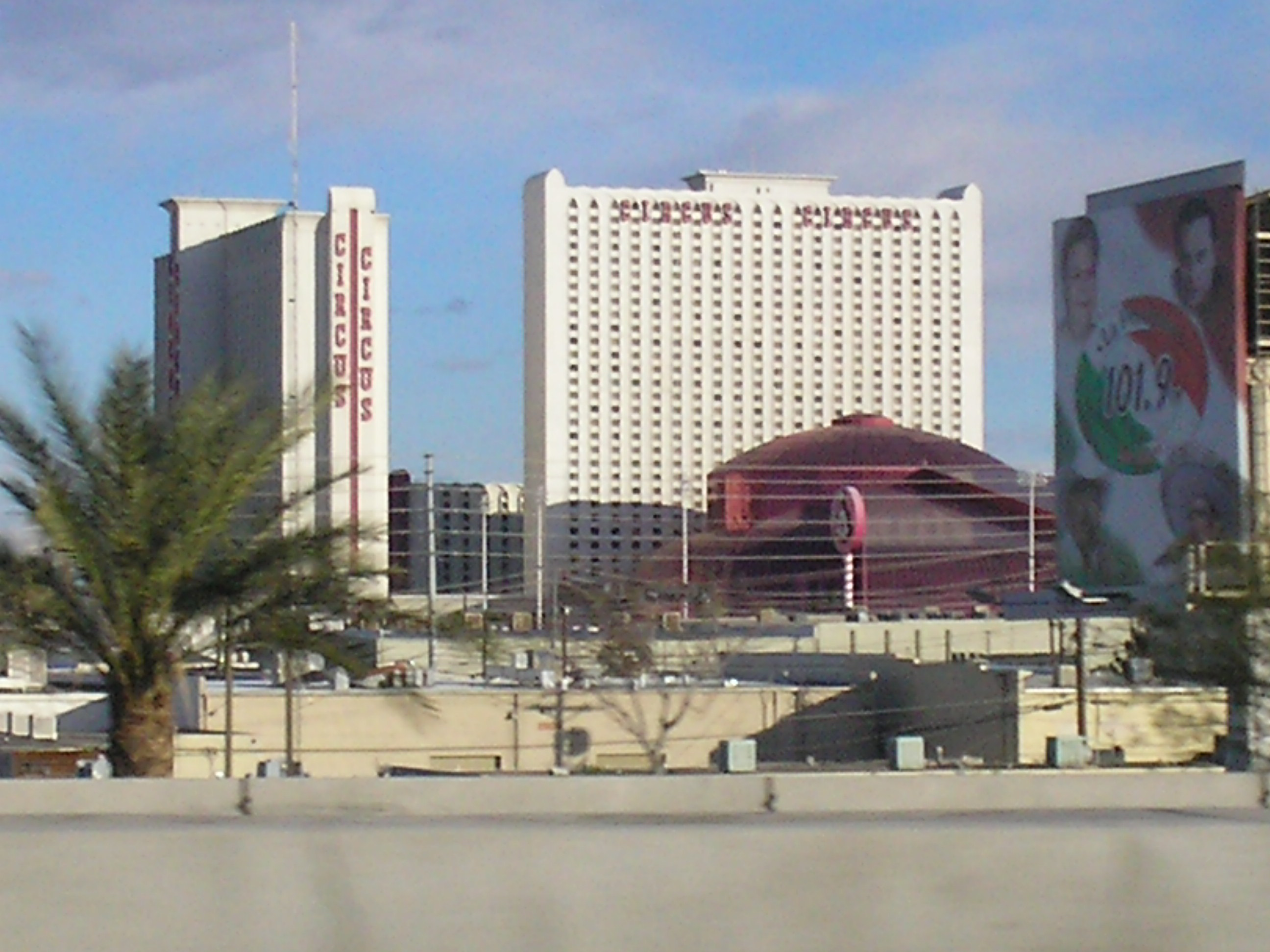 Circus Circus Las Vegas and Adventuredome in Las Vegas, Nevada, USA